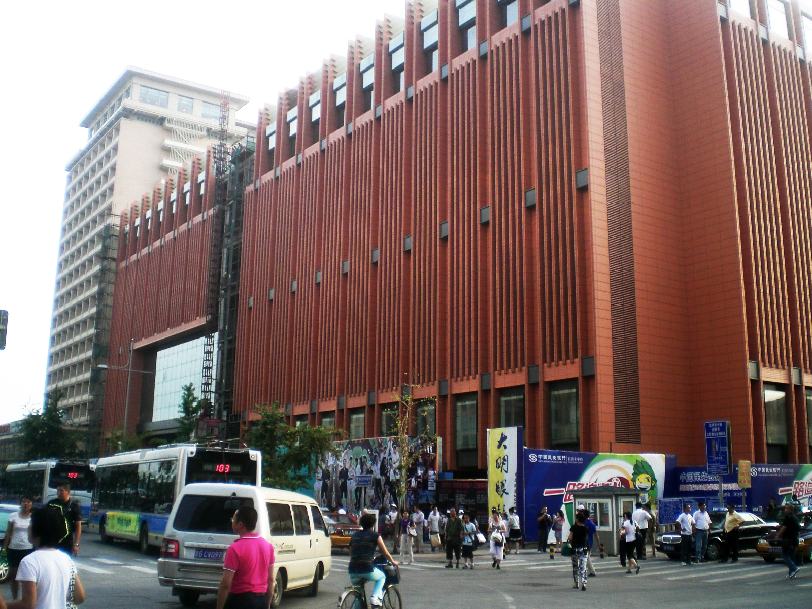 北京市東城區王府井王府井大街